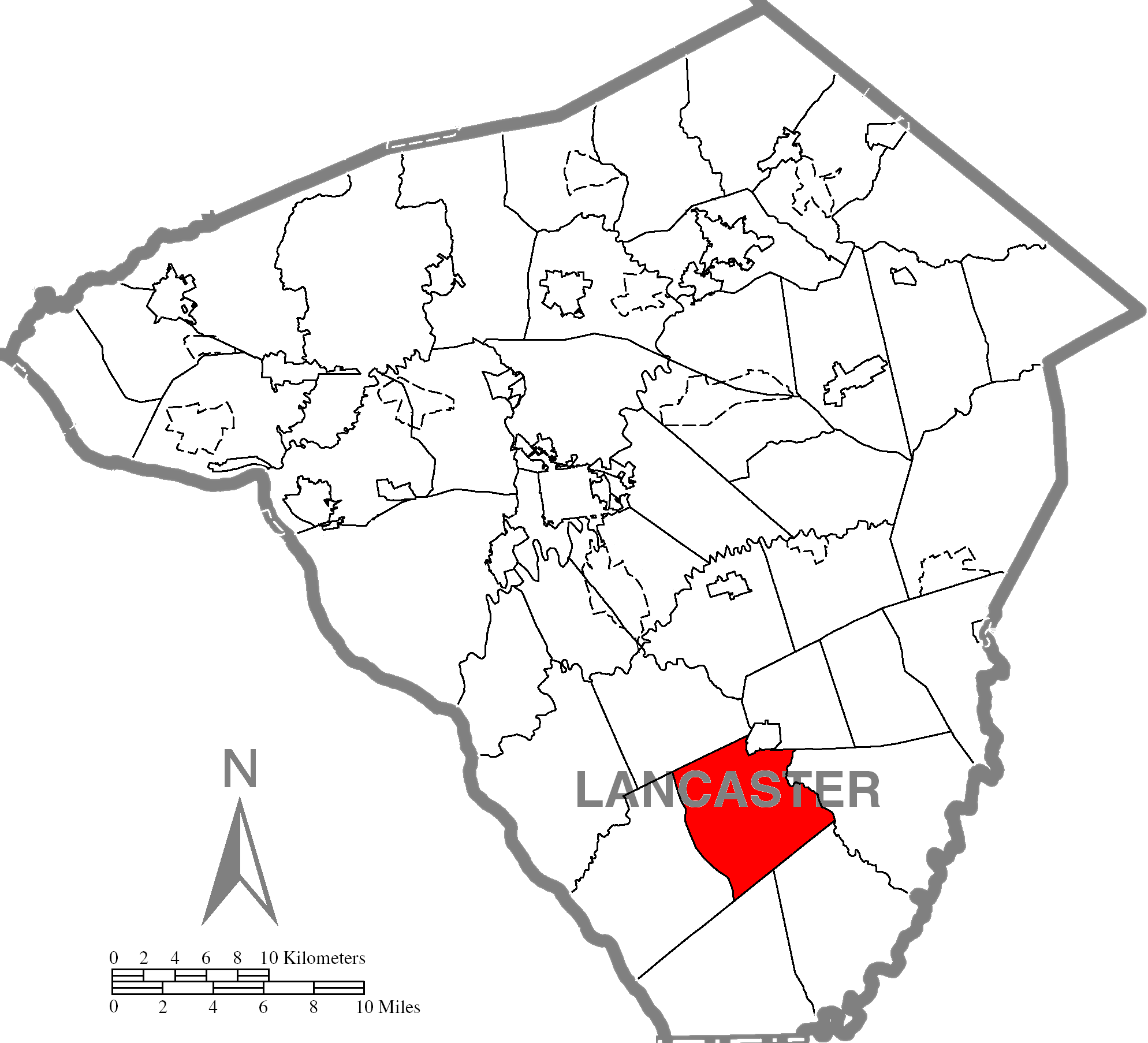 Highlighted Lancaster County map of East Drumore Township.